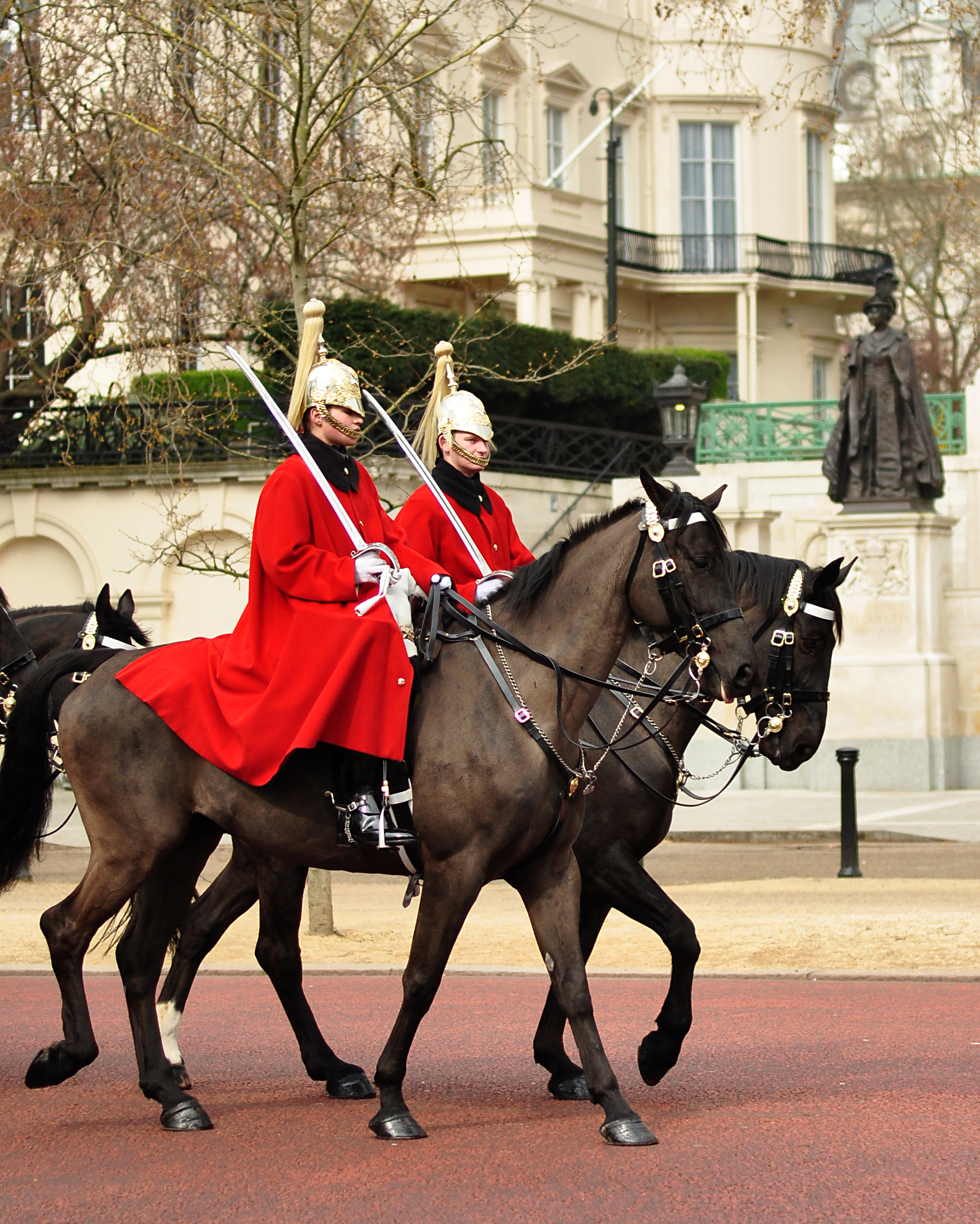 Queen Elizabeth the Queen Mother statue looks onto The Mall as the Household Cavalry trot past. The Mall, London, 27-March-2014. 9529